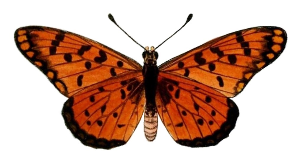 Godman, F.D. & Distant, W.L. (1880): Descriptions of five new species of Rhopalocera from East Africa. Proceedings of the Zoological Society of London 1880:182-185. Plate XIX (19) text figure 4 Acraea chilo Godman, 1880 male